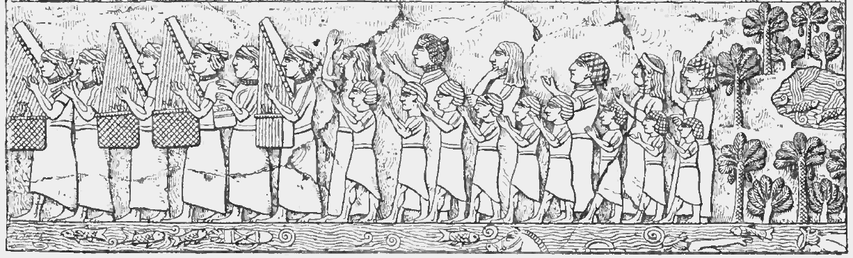 Bottom part of a relief in which the Assyrians celebrate their capture of Madaktu, an important city of Susiana, by a sort of triumph.